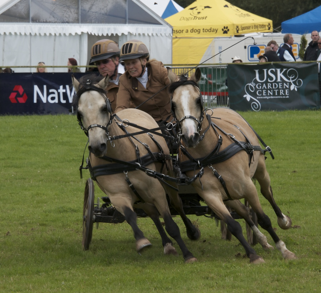 High octane precision carriage racing, turning tight corners at speed and passing through remarkably narrow gaps, with a five second penalty for every marker cone nudged. This picture does not show the rear passenger who has to hang out the sides on the bends to prevent the carriage turning over. The Monmouth Show website says: full speed ahead as a pair of ponies pulls a 4 wheel scurry carriage in a race against the clock through a course of obstacles. The course comprises of 12 to 14 pairs of cones including a slalom, where the ponies weave right, left, right just like skiing. Sporting drivers compete against each other to get the fastest time possible and be crowned victorious.